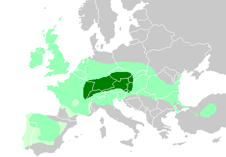 Maximum Celtic expansion in Europe. Based on Celts in Europe.png. This map shows: Core Hallstatt territory, expansion before 500 BC Maximum Celtic expansion by the 3rd century BC Aquitanian area of Gaul, and Lusitanian area of Iberia, "Celticity" uncertain